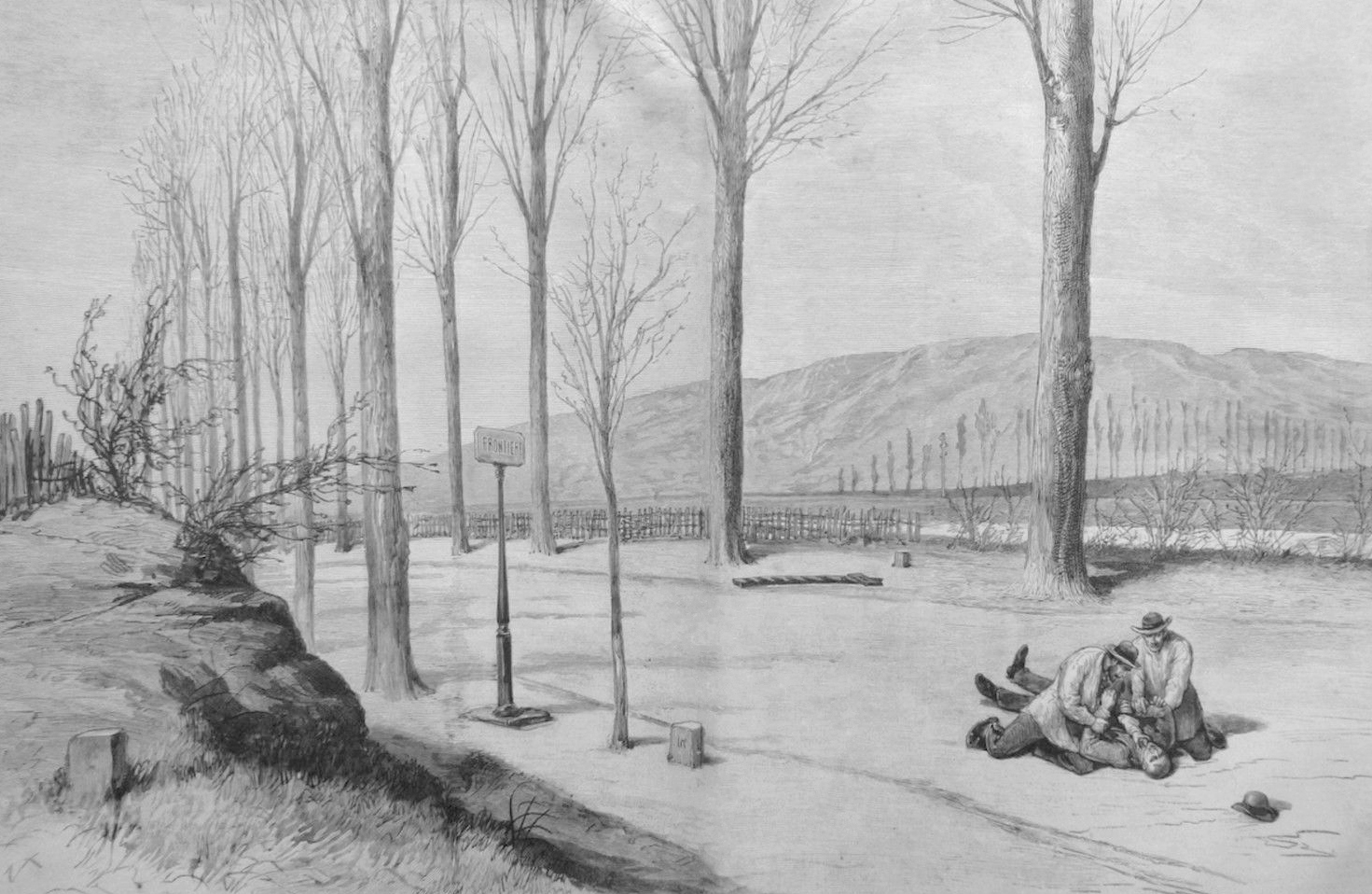 Contemporary newspaper artistic rendition of the capture of Guillaume Schnaebelé